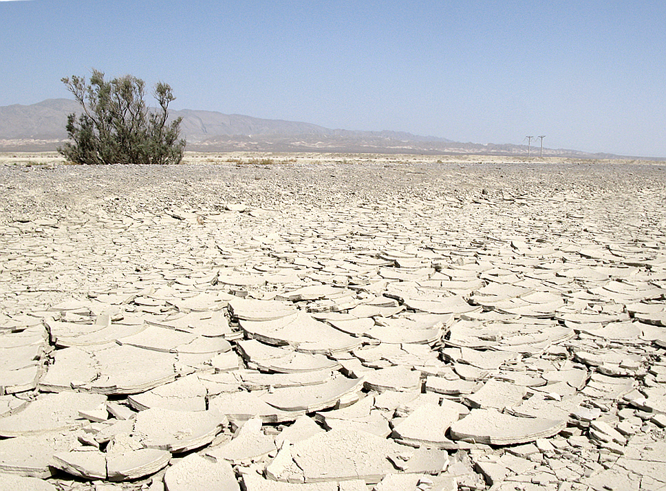 Karakum desert in Turkmenistan